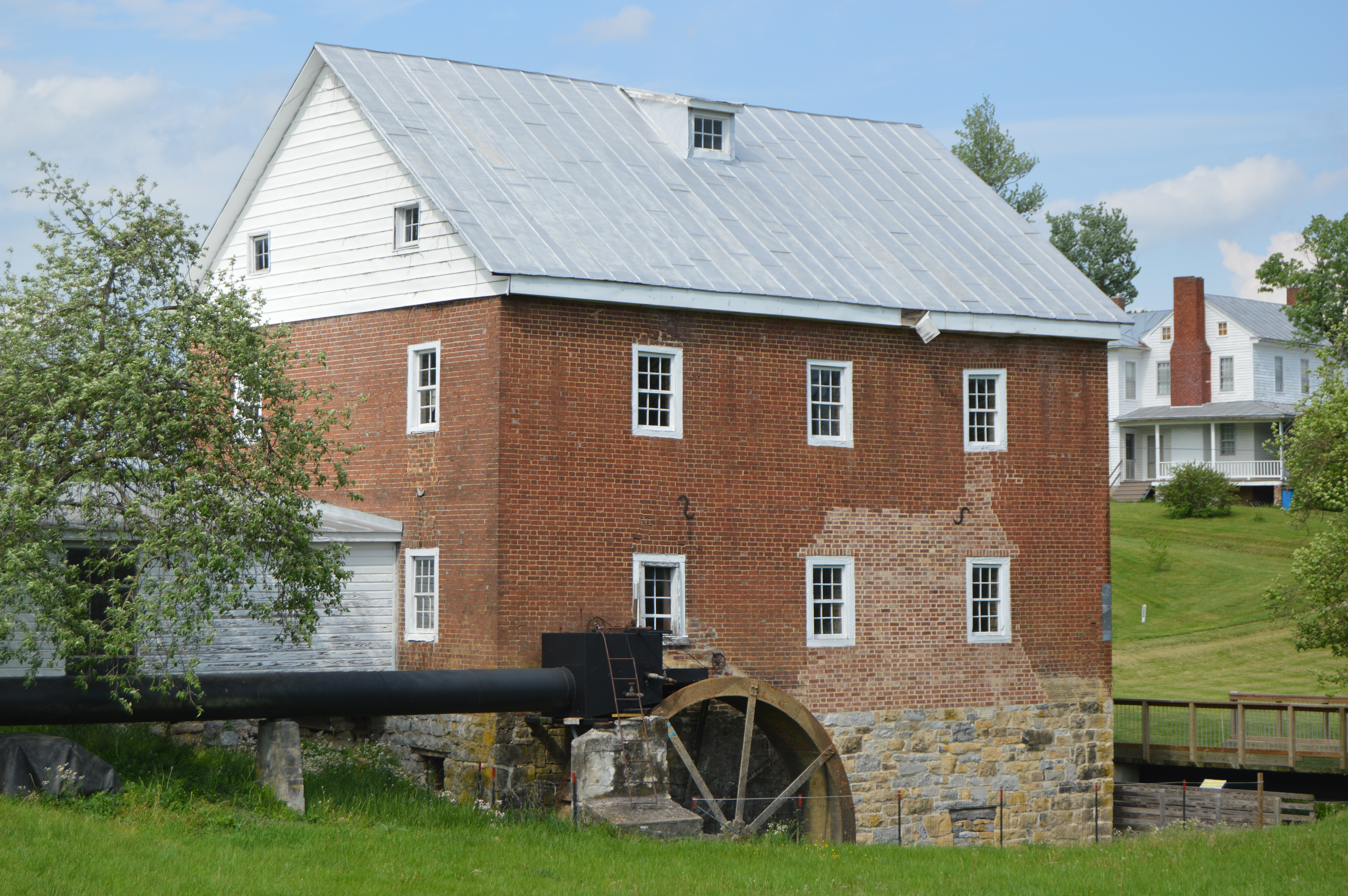 Southern and western sides of the Breneman-Turner Mill, located on Brenneman Church Road north of Harrisonburg in Rockingham County, Virginia, United States. Built in 1800 and a rare survival of the Civil War, it is listed on the National Register of Historic Places.